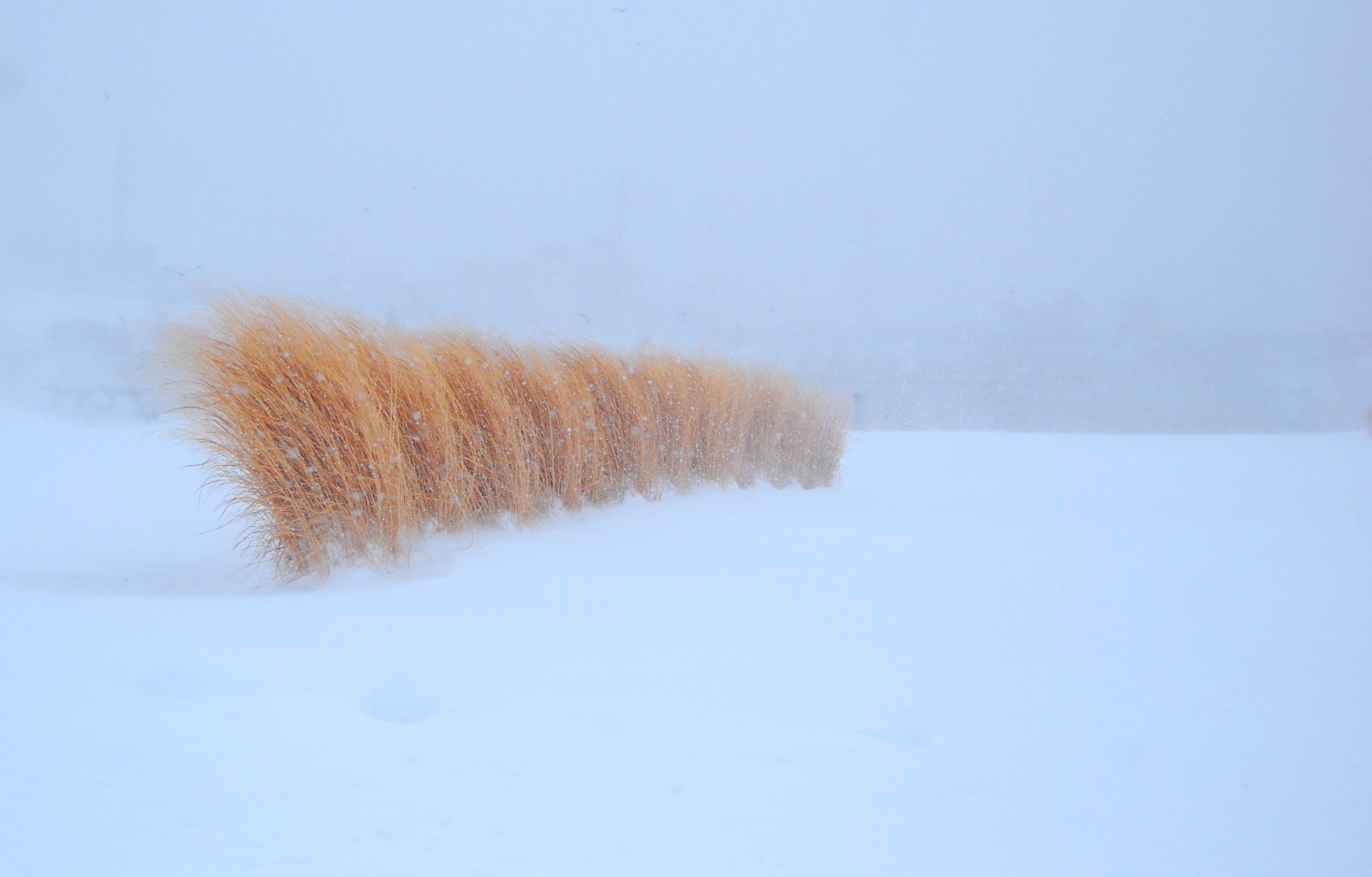 March 2008 North American blizzard, Lorain, Ohio